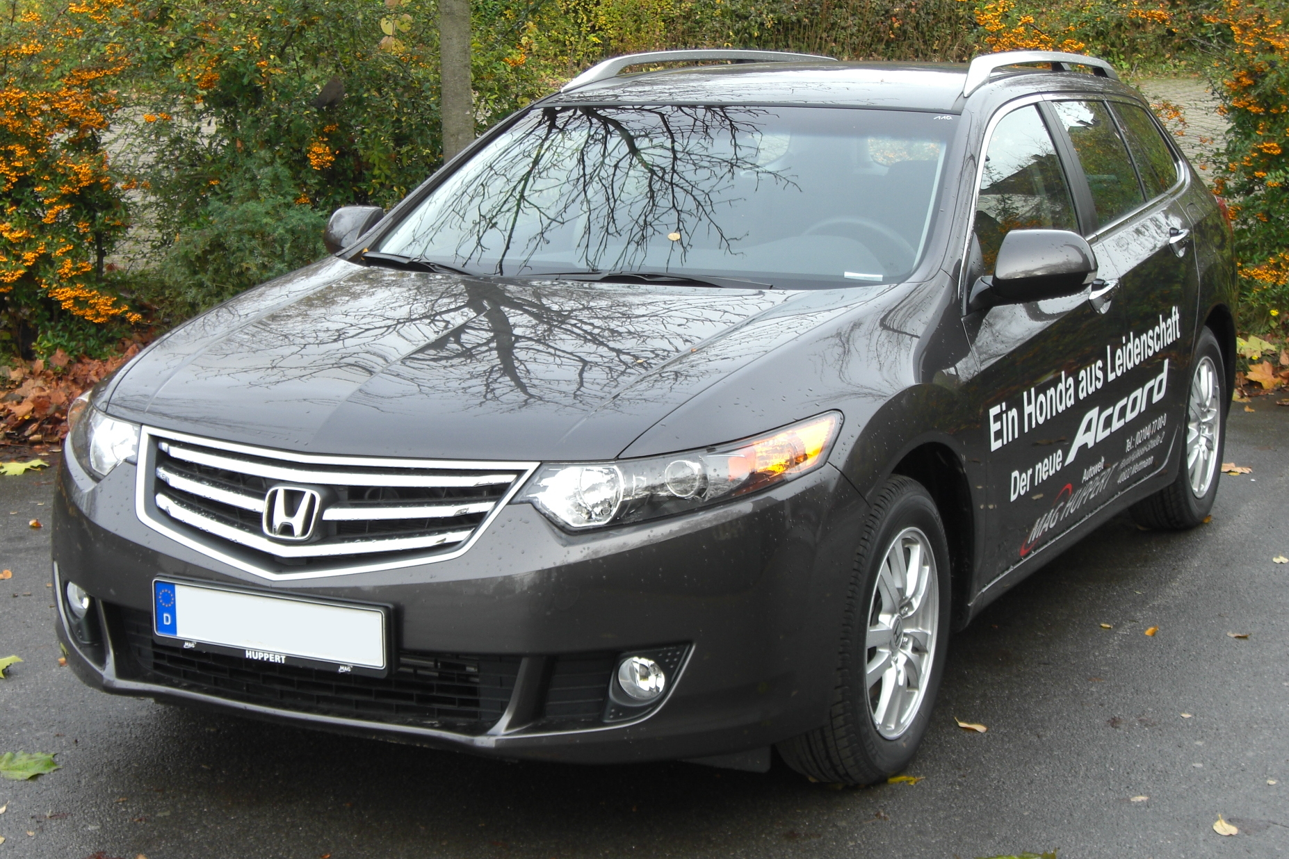 Description: Honda Accord VI Tourer Source: Matthias Other Version(s)